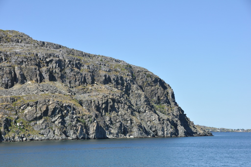 Old Lighthouse Site Municipal Heritage Site, Cupids, Newfoundland. The site is at the low point on the right side of the promontory.